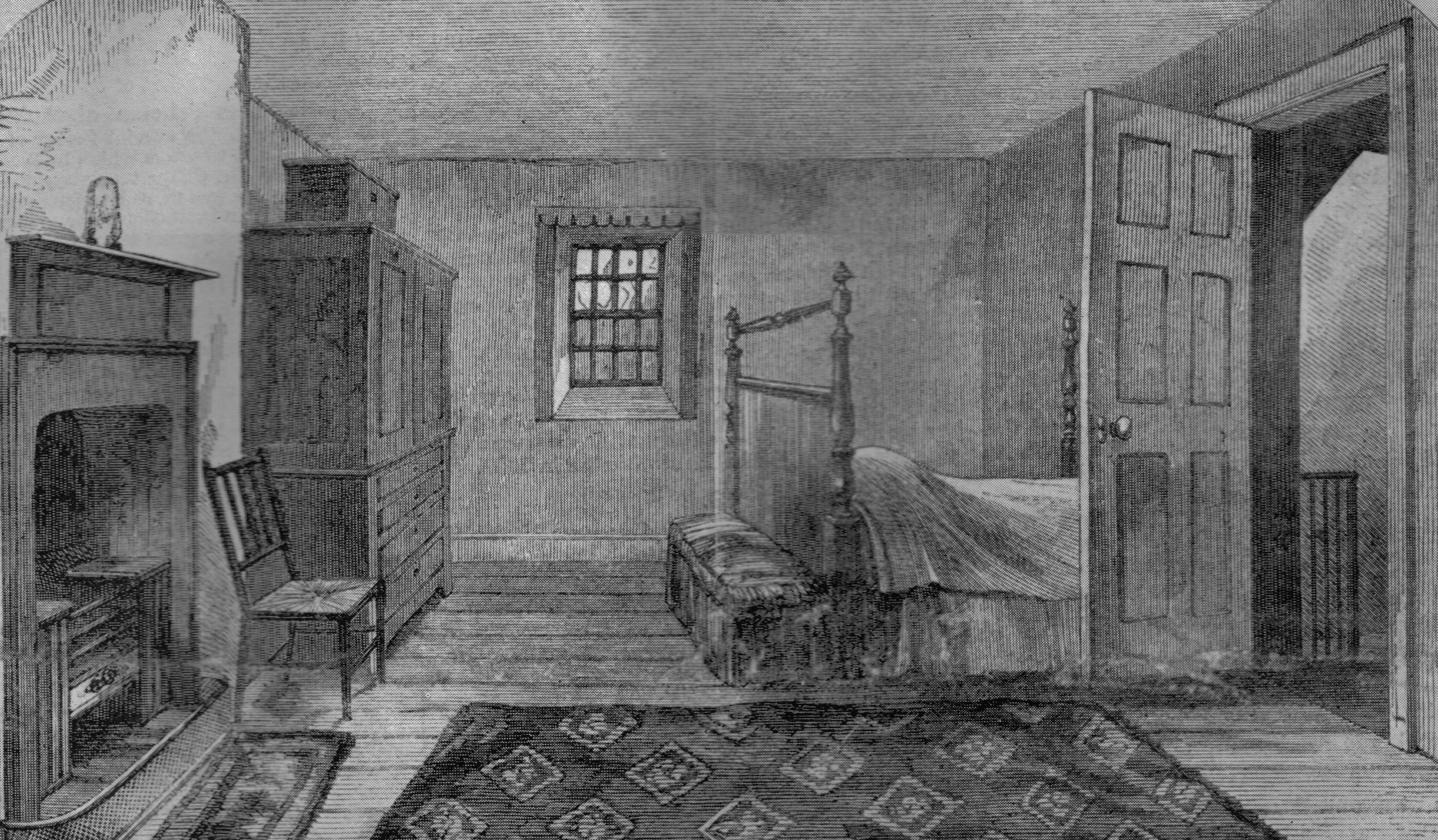 A view of the room in which Robert Burn died in Dumfries, Scotland.